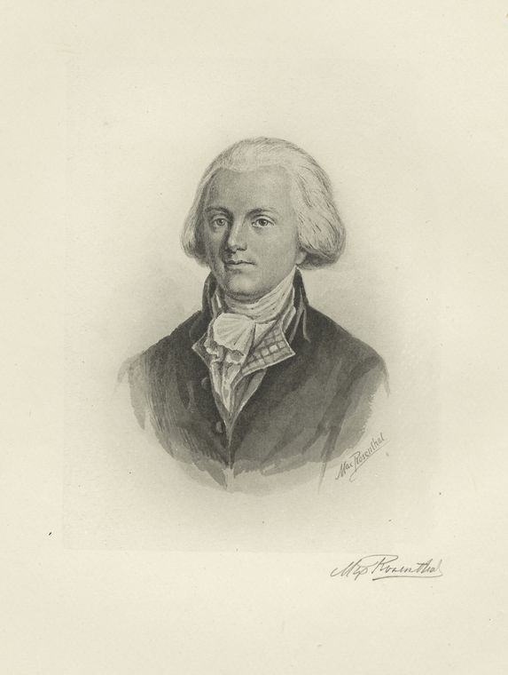 Portrait of Nicholas Gilman, signer of the United States Constitution and United States Senator from New Hampshire, by artist Max Rosenthal.